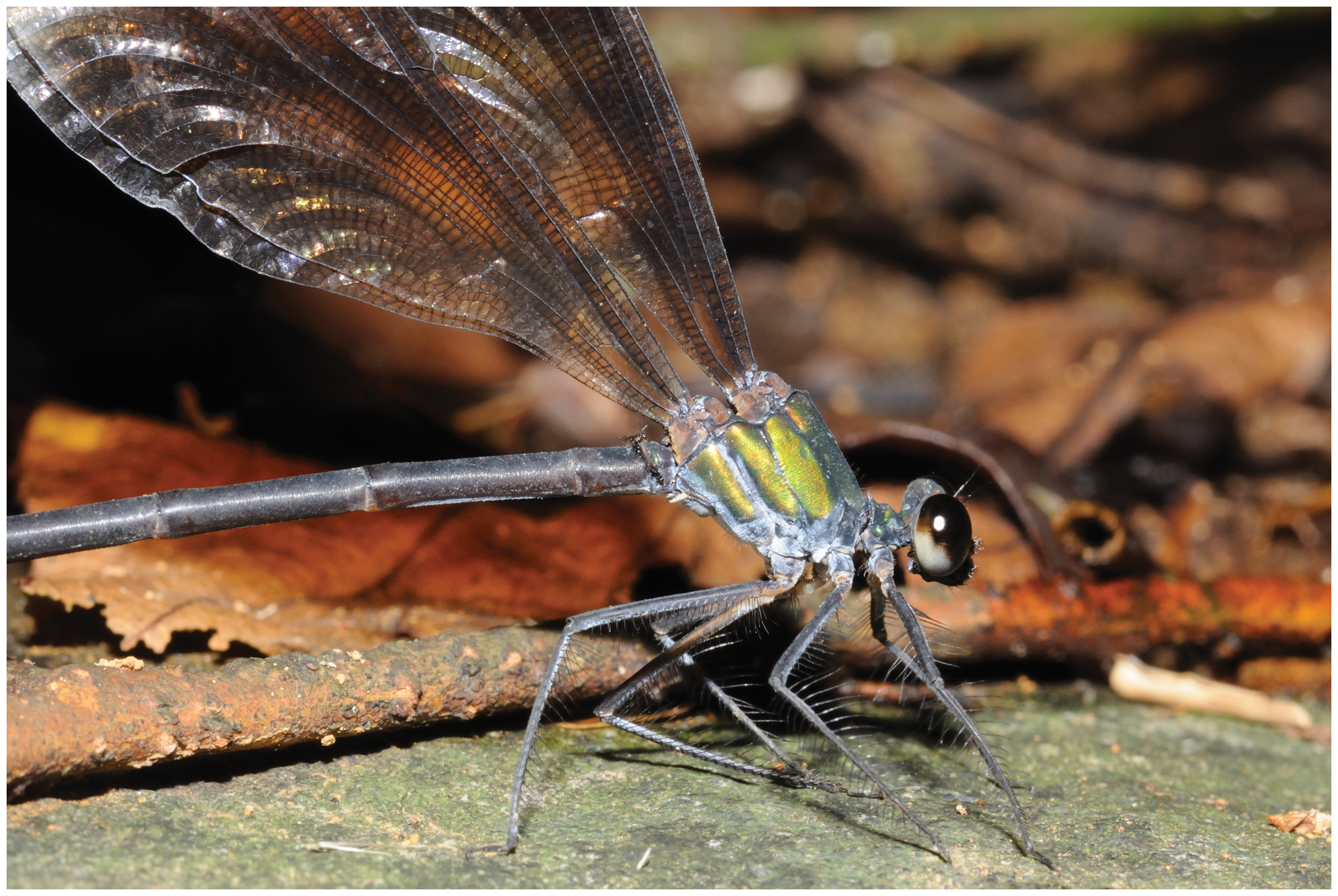 Psolodesmus mandarinus mandarinus with female of Hydrophylita emporos phoretic on base of abdomen.